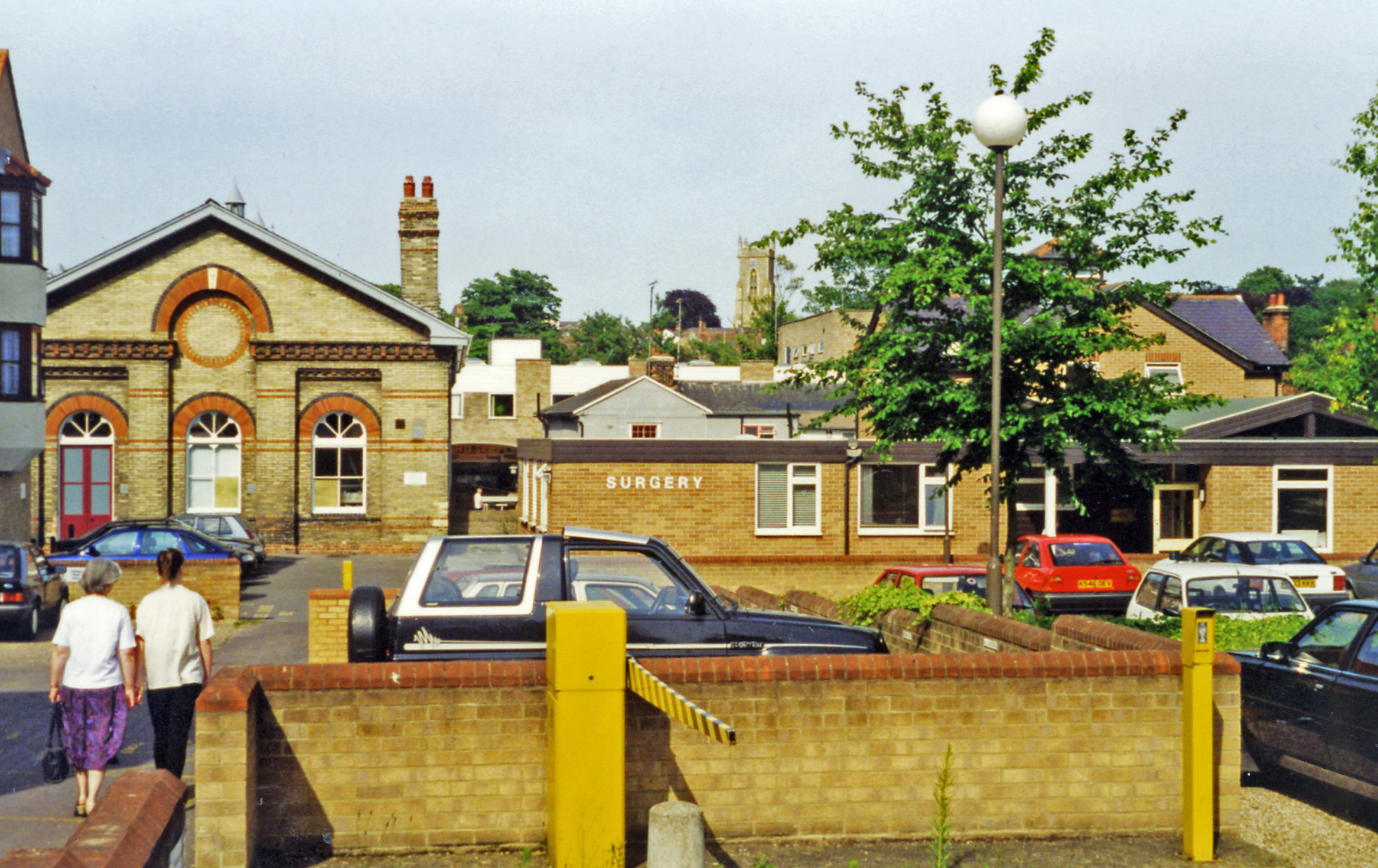 Site of Halstead station. View eastward, opposite the Library. The former Colne Valley & Halstead Railway used to run in the foreground, from Chappel & Wakes Colne (to right) - (to left) Haverhill. Halstead station and the whole route was closed to passengers from 1/1/62, when all traffic ceased Haverhill - Yeldham; goods traffic continued Yeldham - Halstead until 28/12/64 and Halstead - Chappel until 19/4/65. Evidently, no trace of the railway remained 30 years later.